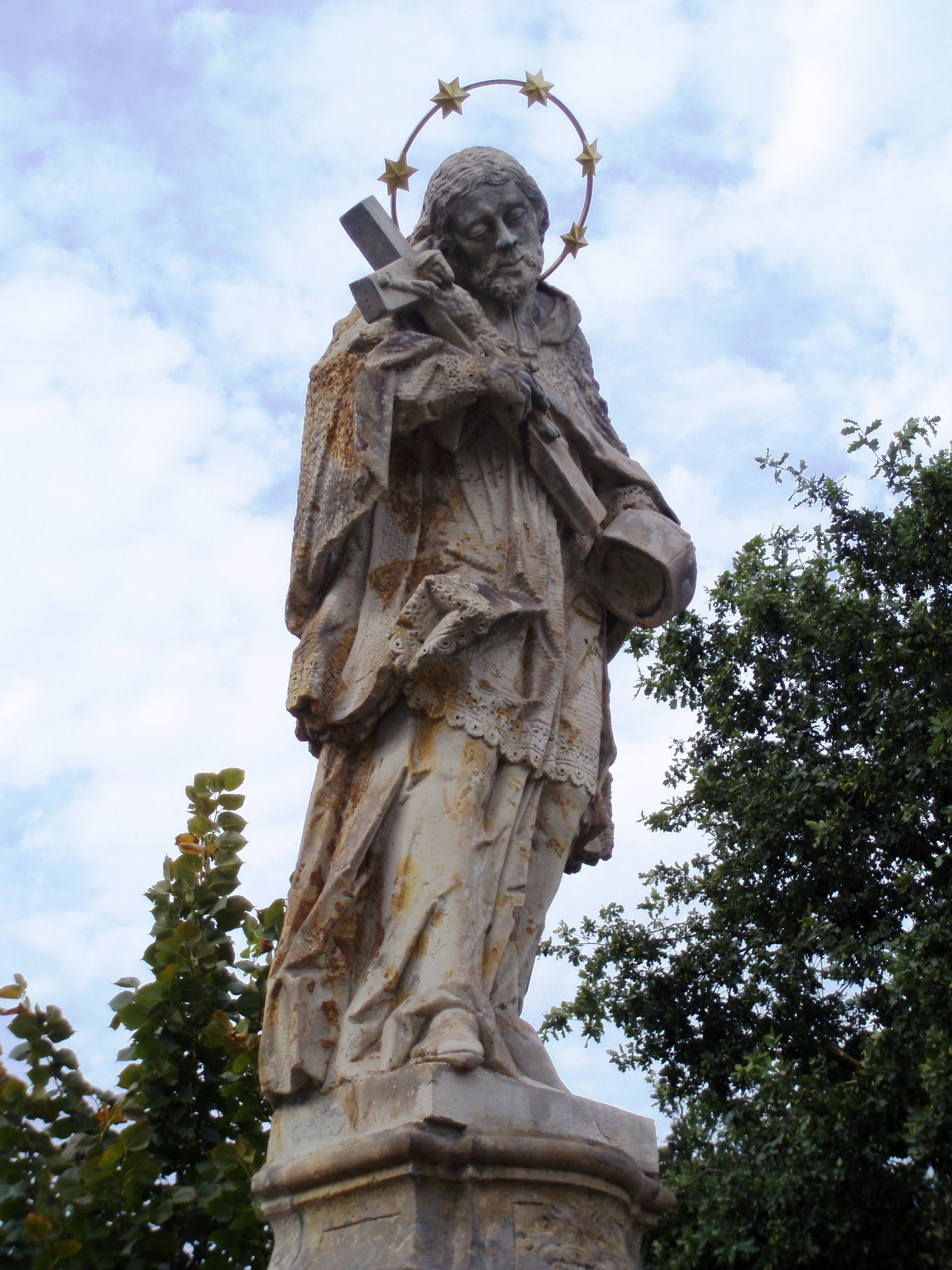 Statue of St. John of Nepomuk in Správčice (Hradec Králové, Czechia)